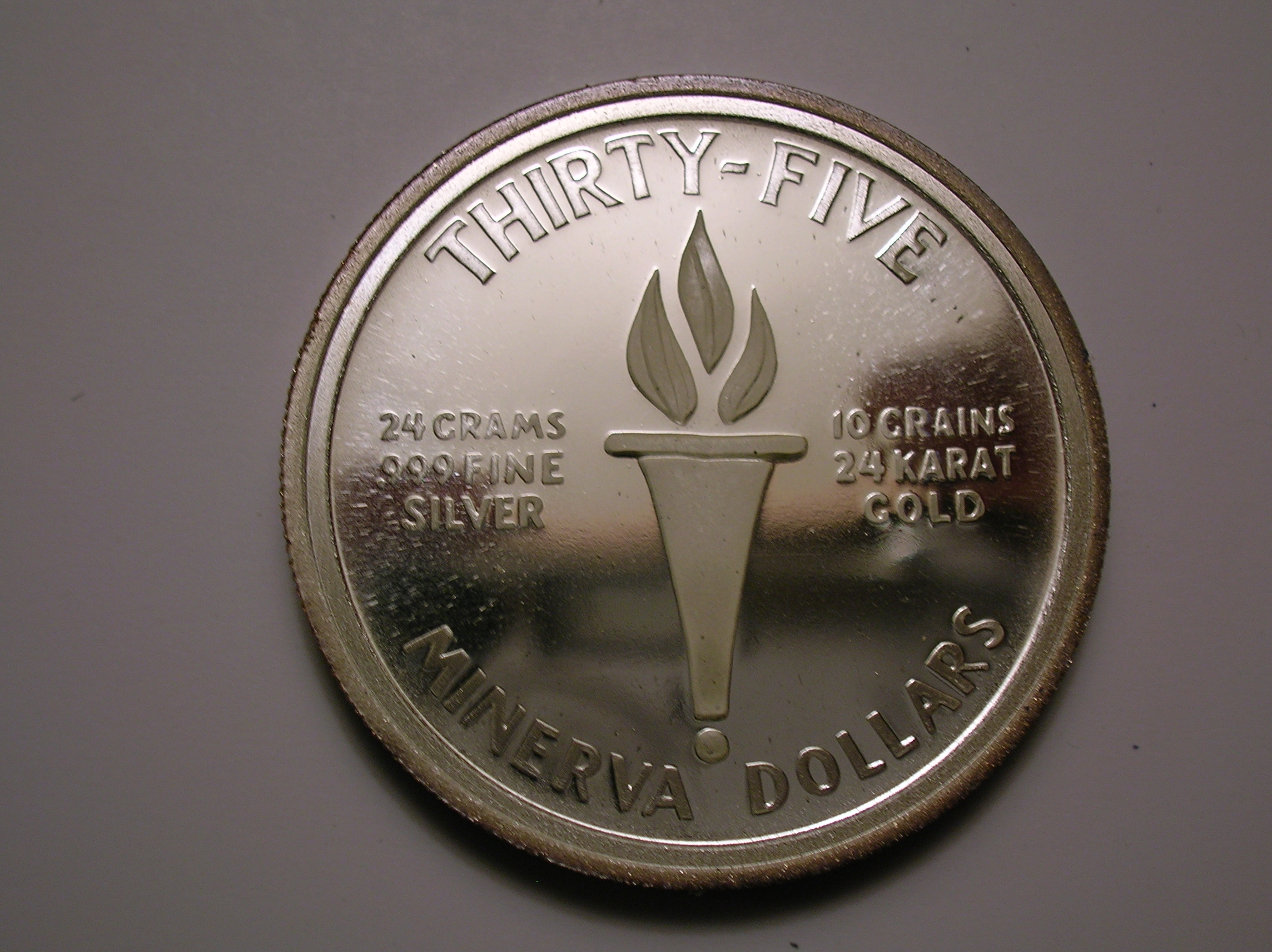 Minerva Republic 35 Dollars coin of 1973